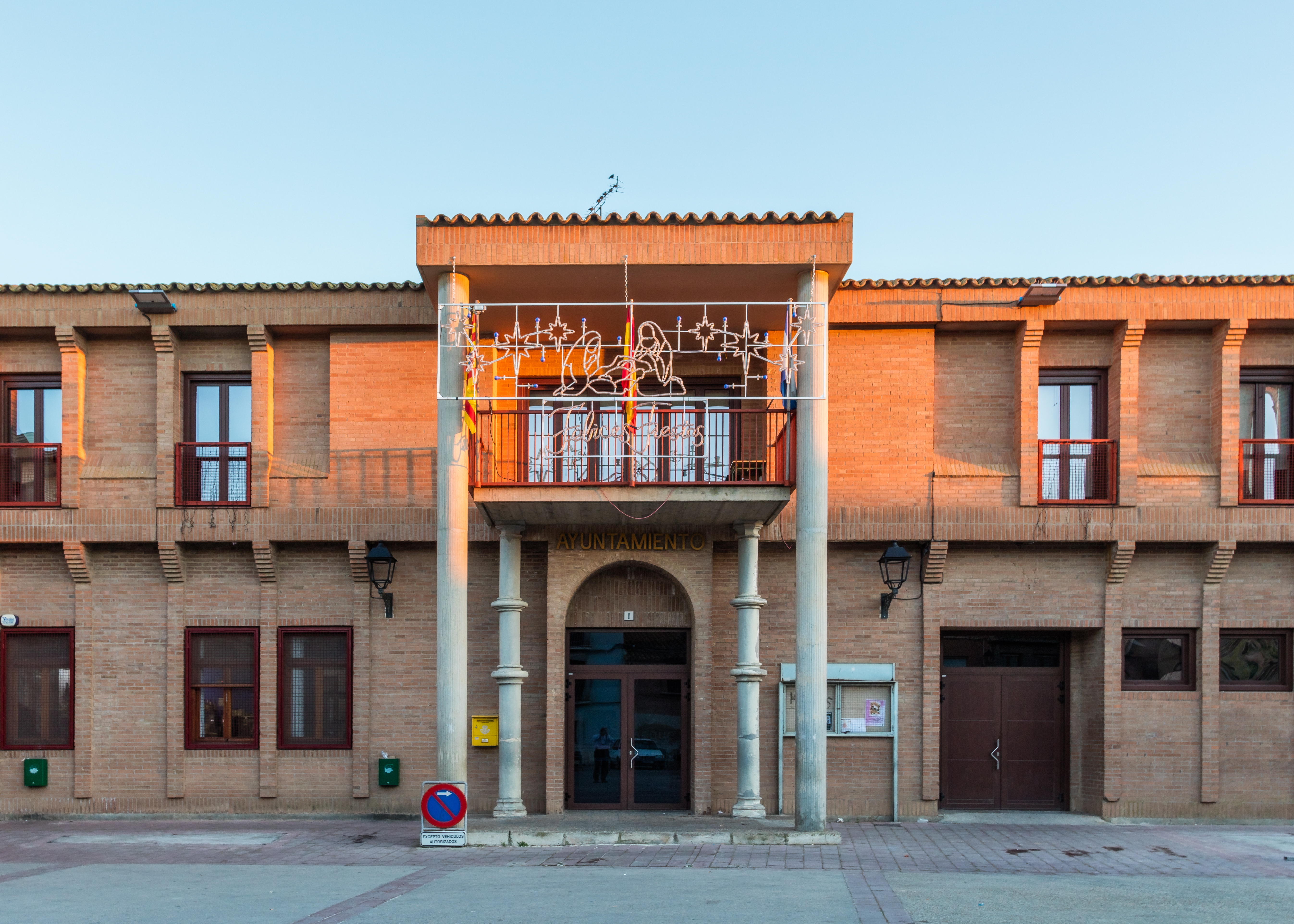 Town hall, Pinseque, Zaragoza, Spain